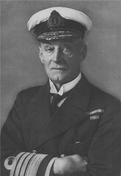 Admiral Sir Henry Bradwardine Jackson (1855–1929) was the First Sea Lord of the Admiralty from 1915 to 1916 during the First World War. Photo from The War Illustrated, 26 June 1915. Caption reads: :Admiral Sir Henry Bradwardine Jackson K.C.B., K.C.V.O., F.R.S., A.I.N.A., M.I.E.E.